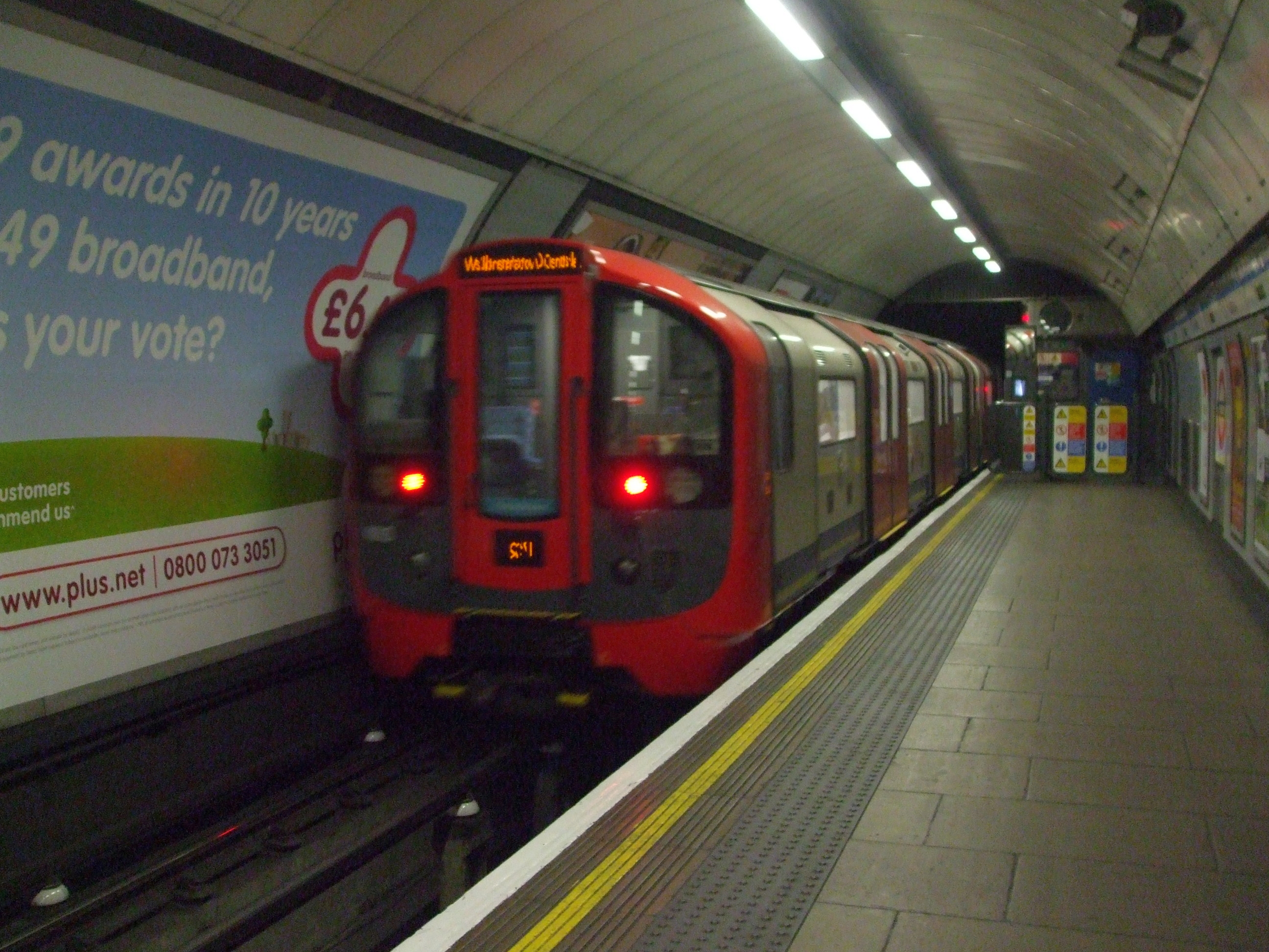 A train of new 2009 tube stock departs Euston with a northbound Victoria line service.